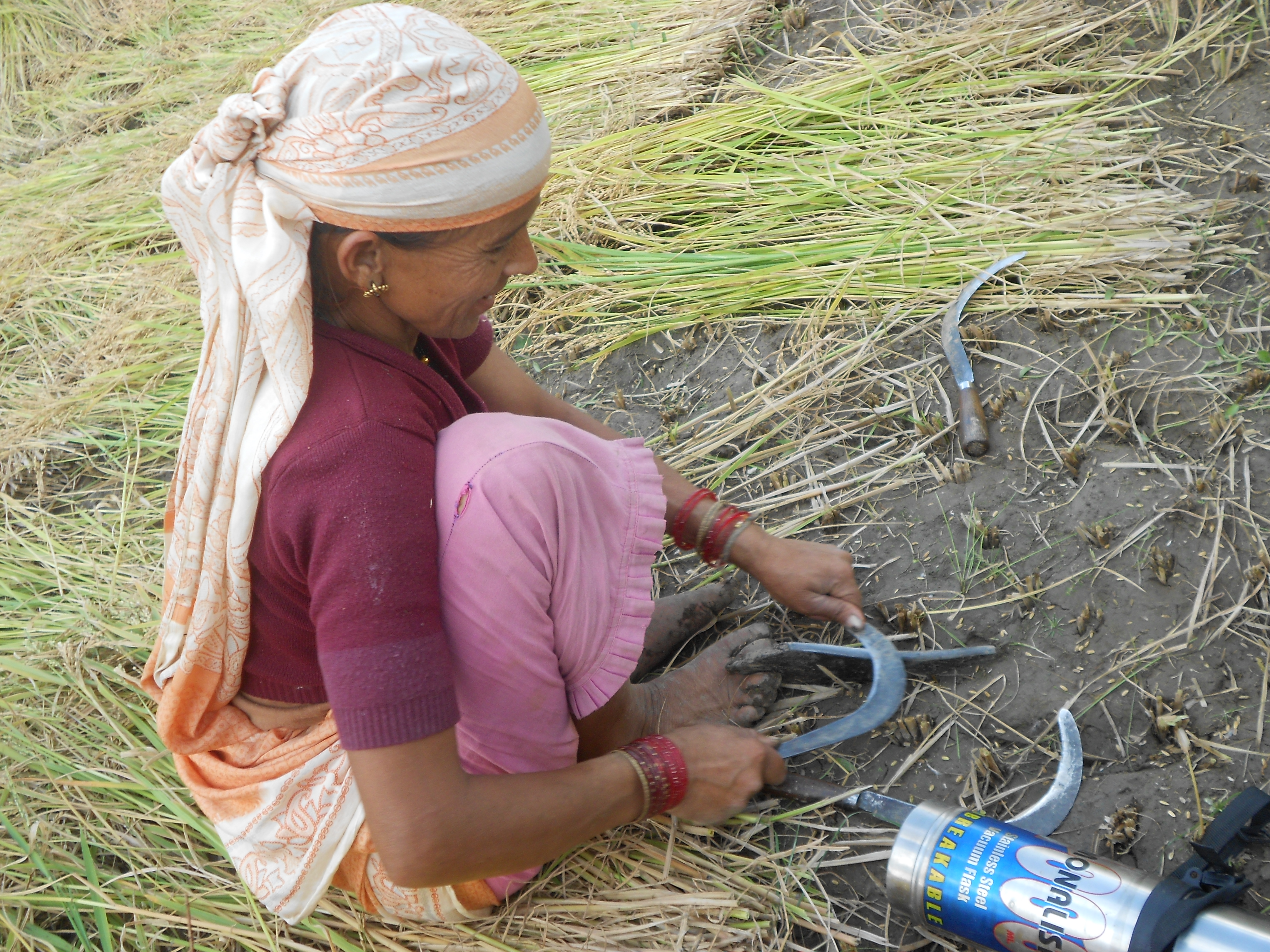 Sickle sharpening, Uttarakhand, India.